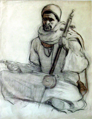 a man playing Rababa